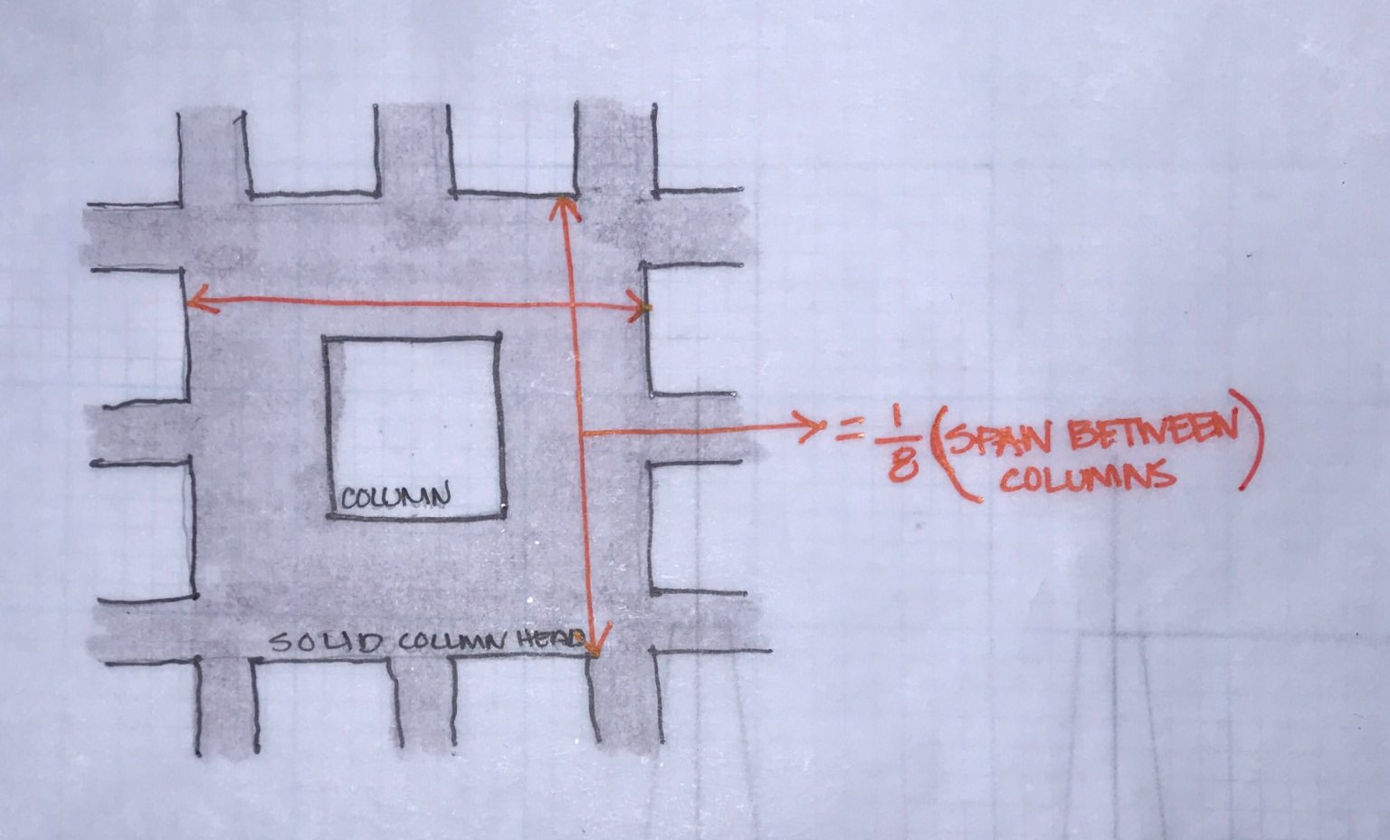 Diagram shows the width of the column head with rule of thumb formula